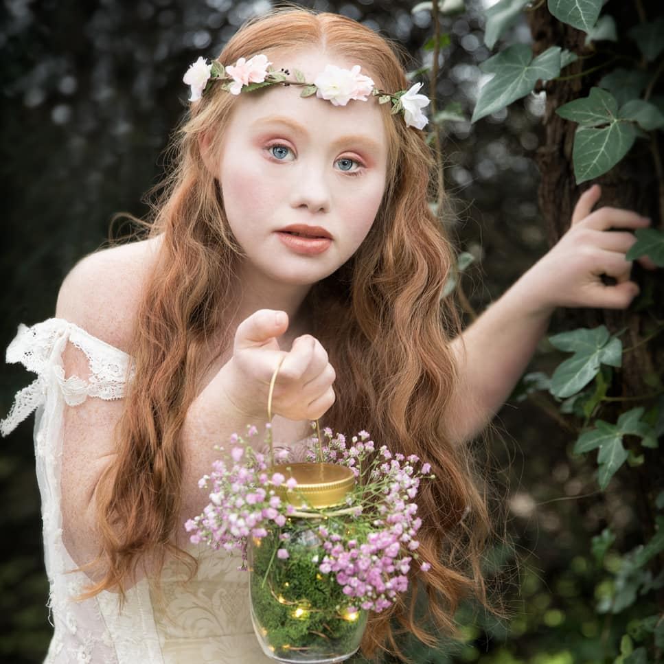 Madeline Stuart Portait